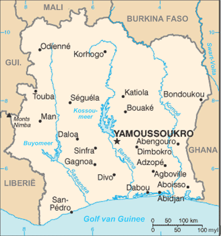 An Afrikaans map of the Ivory Coast.